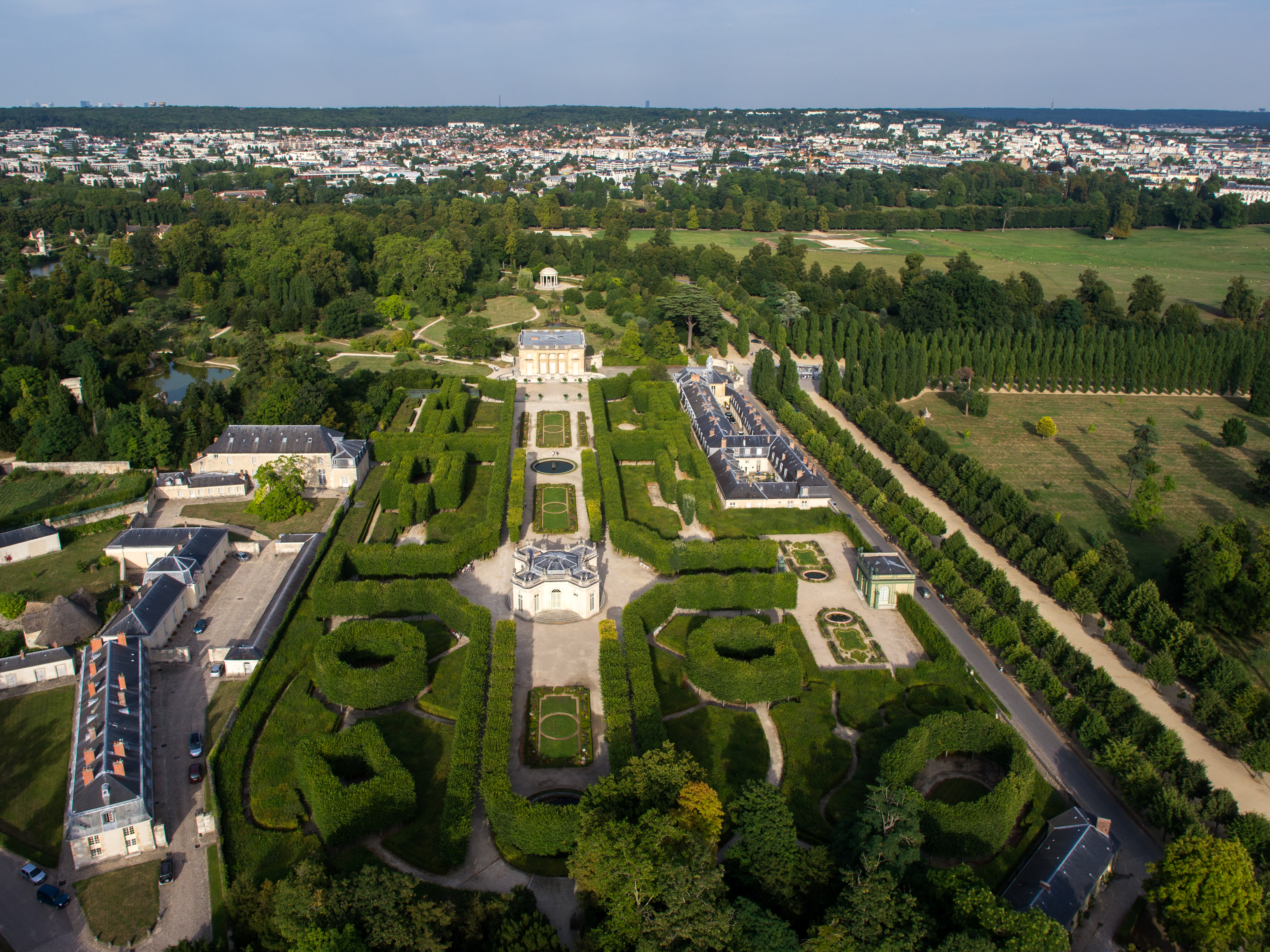 Aerial view of the Petit Trianon, Domain of Versailles, France